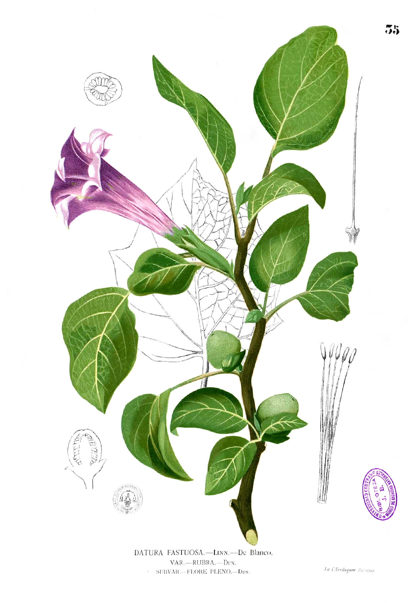 Plate from book